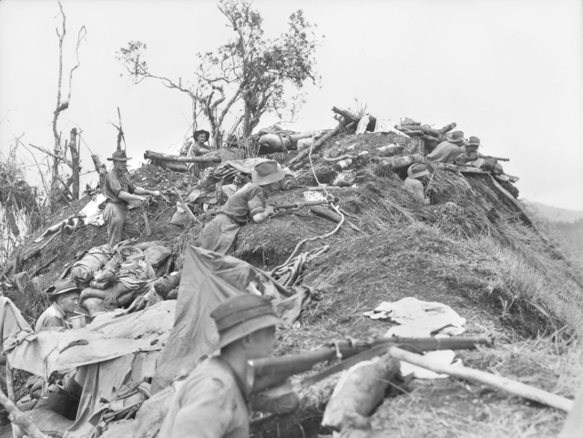 Shaggy Ridge, New Guinea. 1944-01-23. Troops of "C" company, 2/9th infantry battalion digging into a newly occupied feature on Shaggy Ridge.